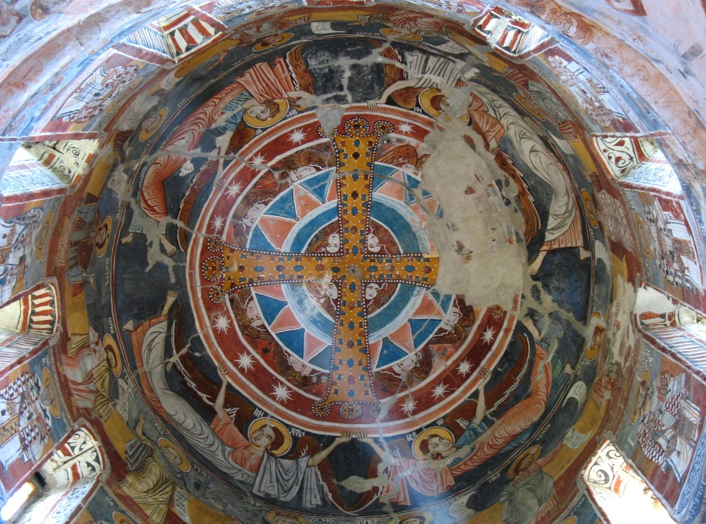 Nikortsminda Cathedral